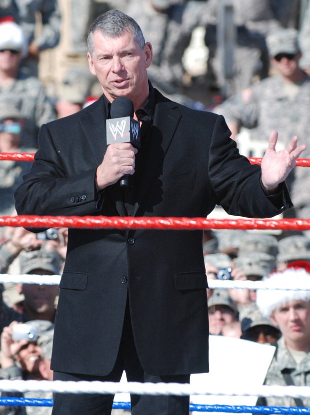 CEOs unite - New York Giants President & CEO John Mara, WWE Chairman & CEO Vince McMahon, and New York Jets Chairman and CEO Woody Johnson.